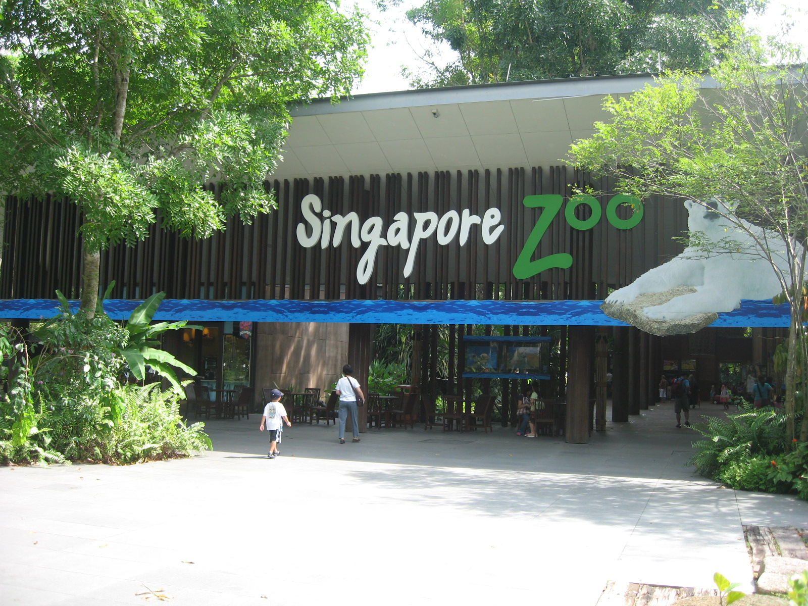 Singapore Zoo. Taken by Terence Ong in November 2006.